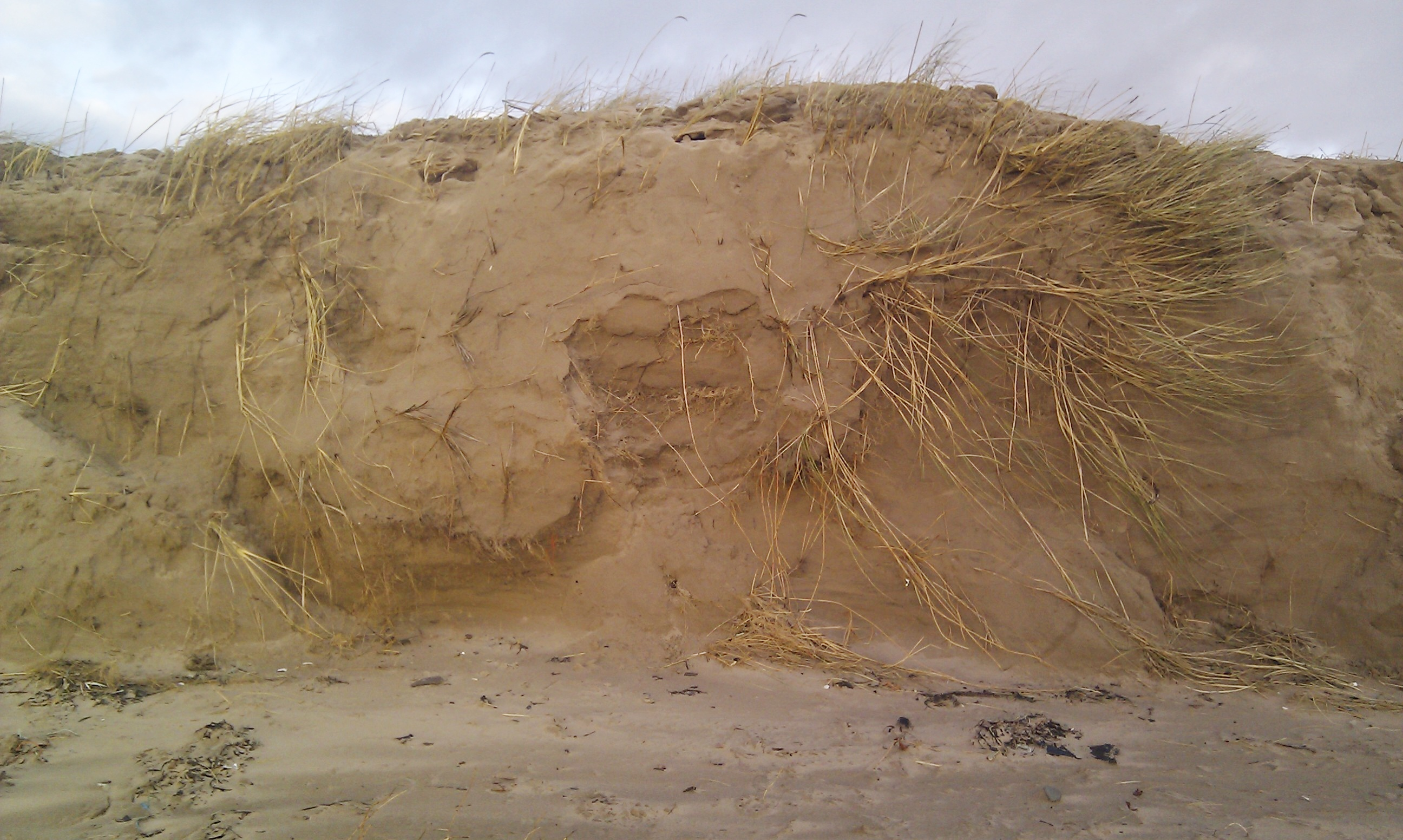 Sand dune profile exposed by storm damage, Stevenston, North Ayrshire, Scotland.